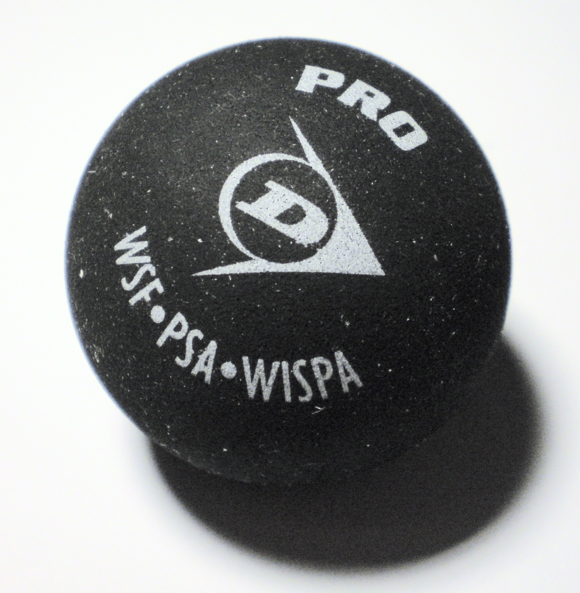 Squash Ball Dunlop Reveleation Pro with visible lettering